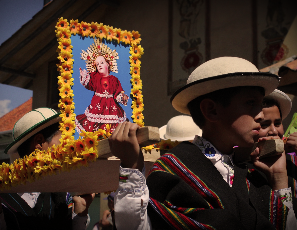 Image reproduction of Child Traveler charged by children dressed as cañaris, during the 2013 Pase del Niño Viajero in Cuenca, Ecuador.